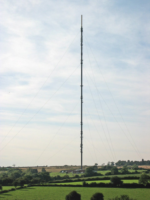 Waltham on the Wolds Transmitter. Built during 1966 for completion early in 1967 this transmitter is a 290 metre high guyed steel tube mast.. Unfortunately, the mast collapsed shortly before it was due to enter service and had to be rebuilt, delaying its opening until 1968. You always know when you're nearing home after a long journey as the aircraft warning lights can be seen for miles around at night.